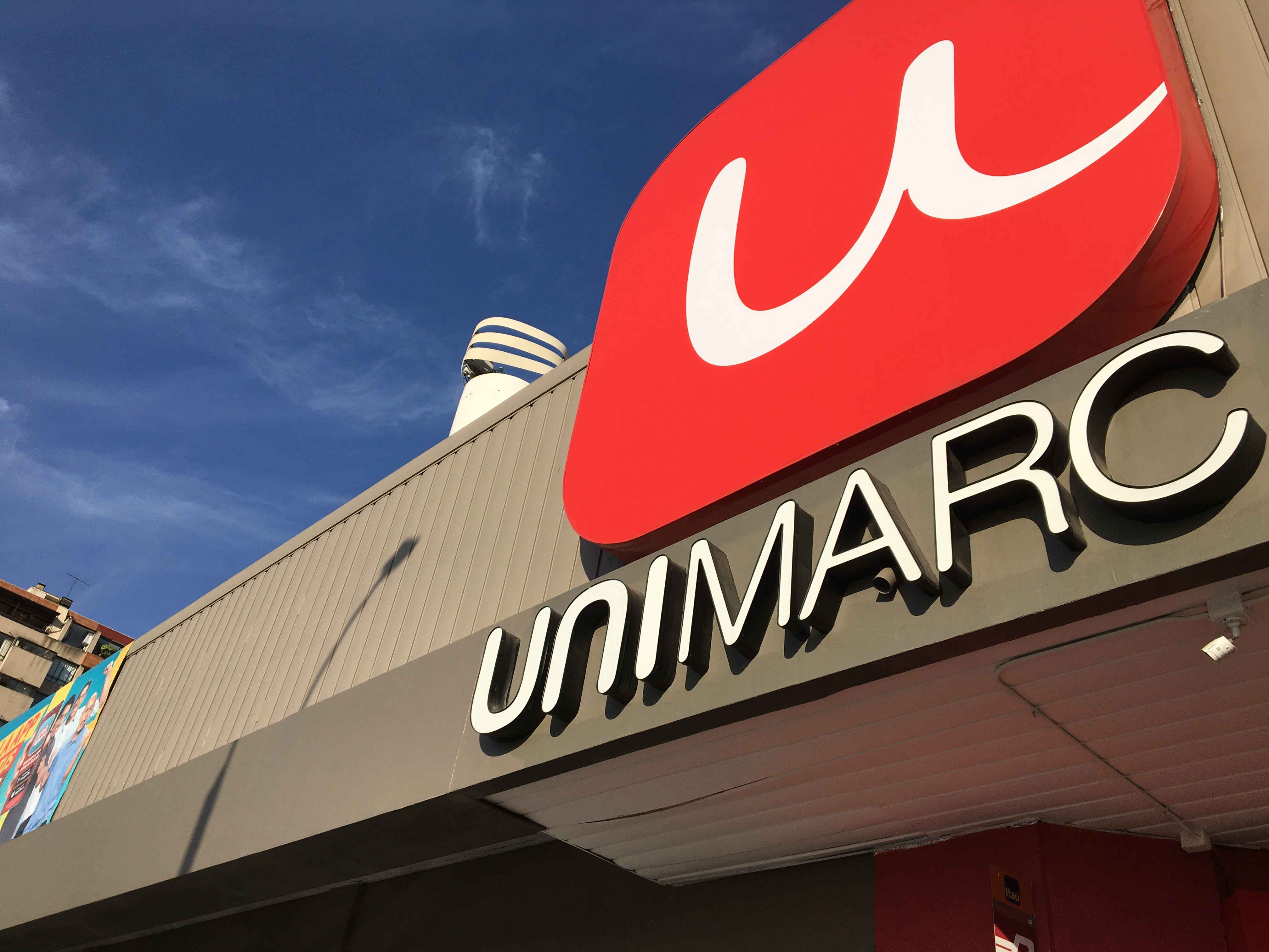 Unimarc december 2019